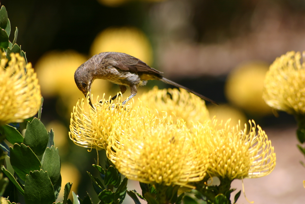 Sugarbird on yellow pincushion (Leucospermum)